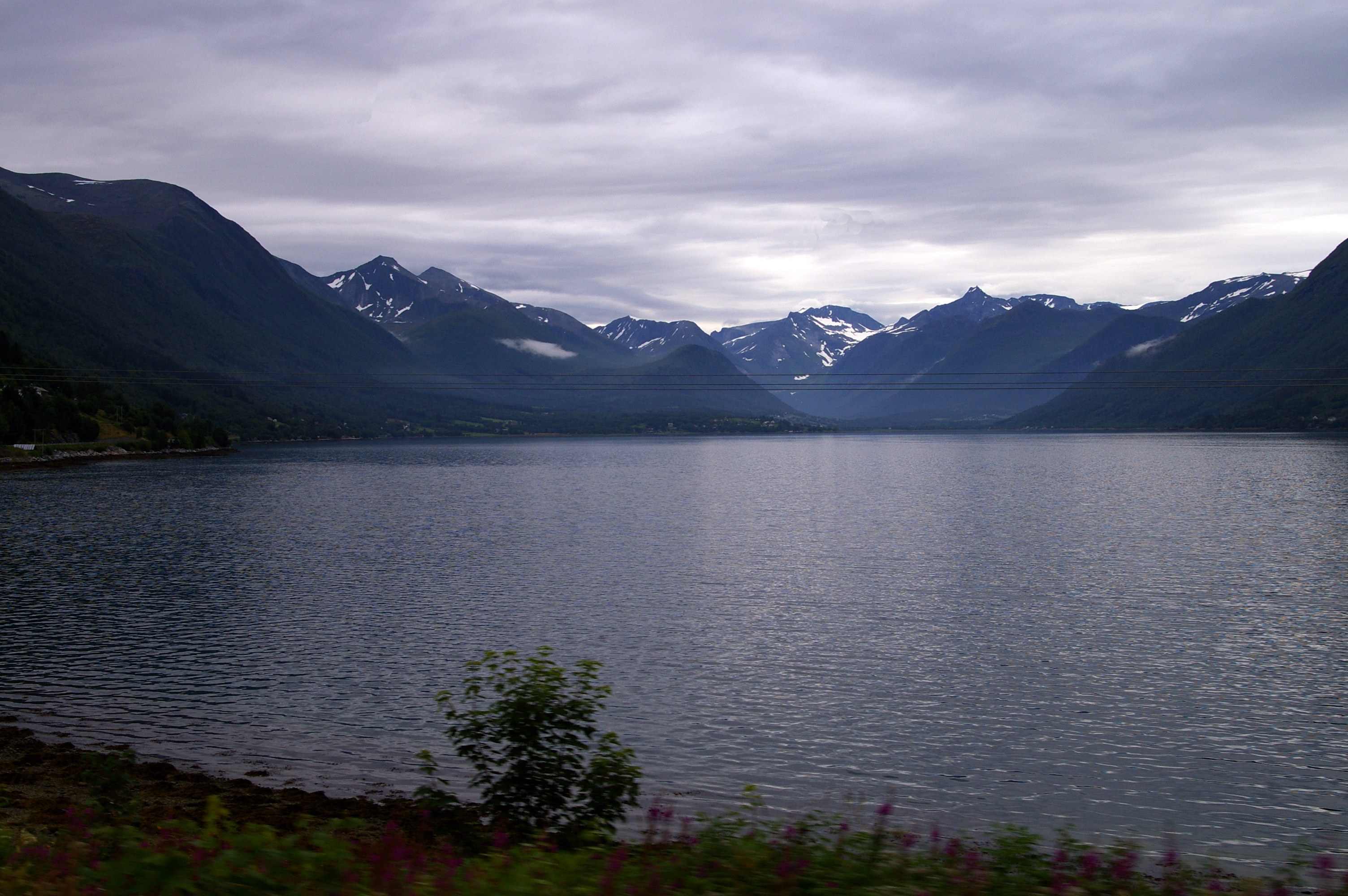 Isfjorden, the innermost part of Romsdalsfjorden in Rauma, Møre og Romsdal, Norway